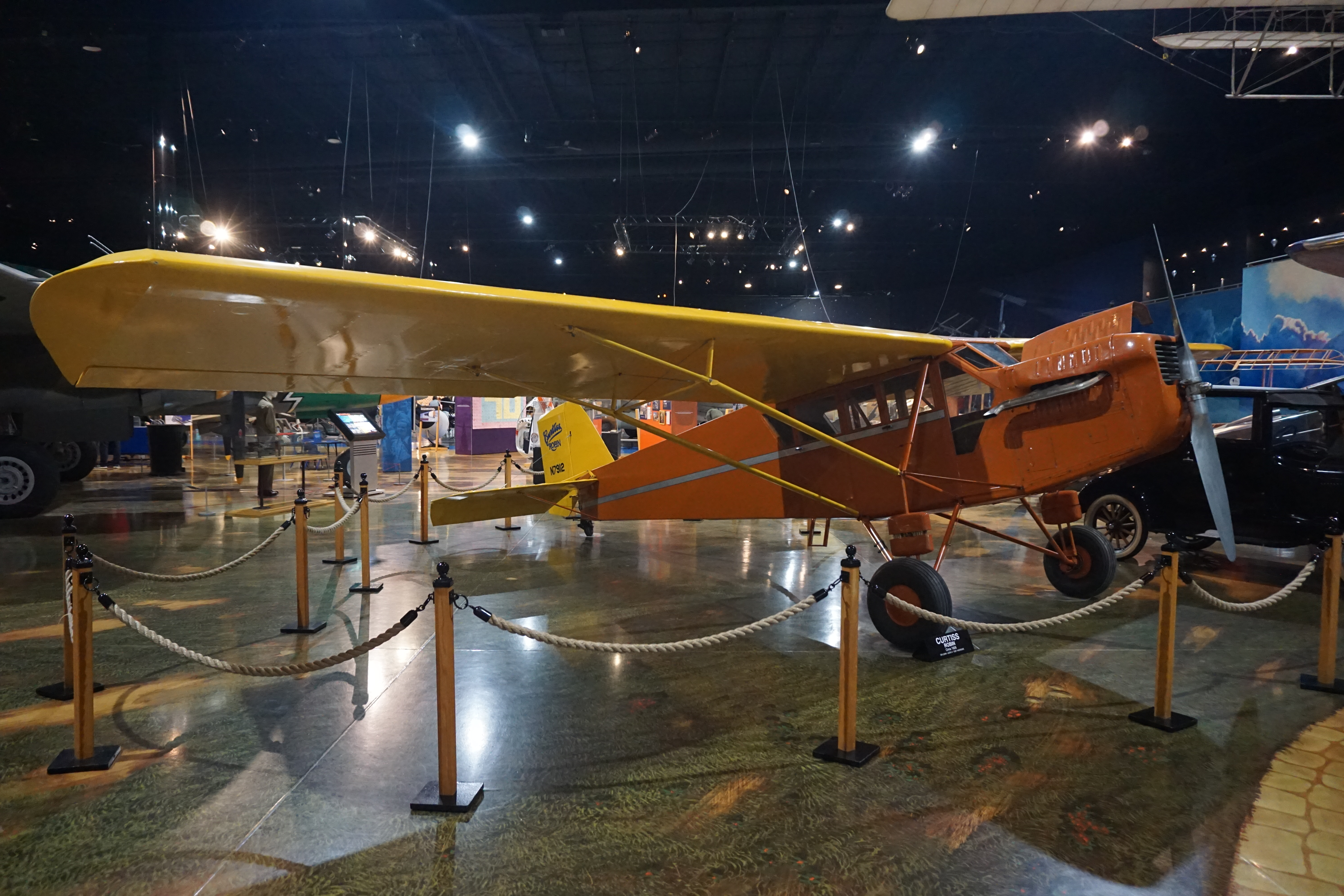 A Curtiss Robin on display at the Air Zoo at Kalamazoo/Battle Creek International Airport in Portage, Michigan (United States).